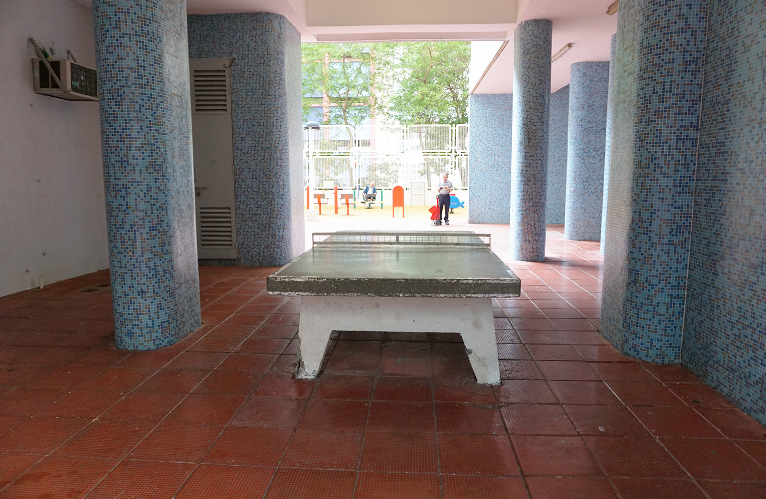 Oi Tung Estate in Shau Kei Wan, Hong Kong.